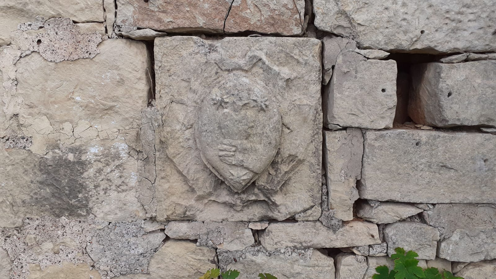 Tower in Żejtun